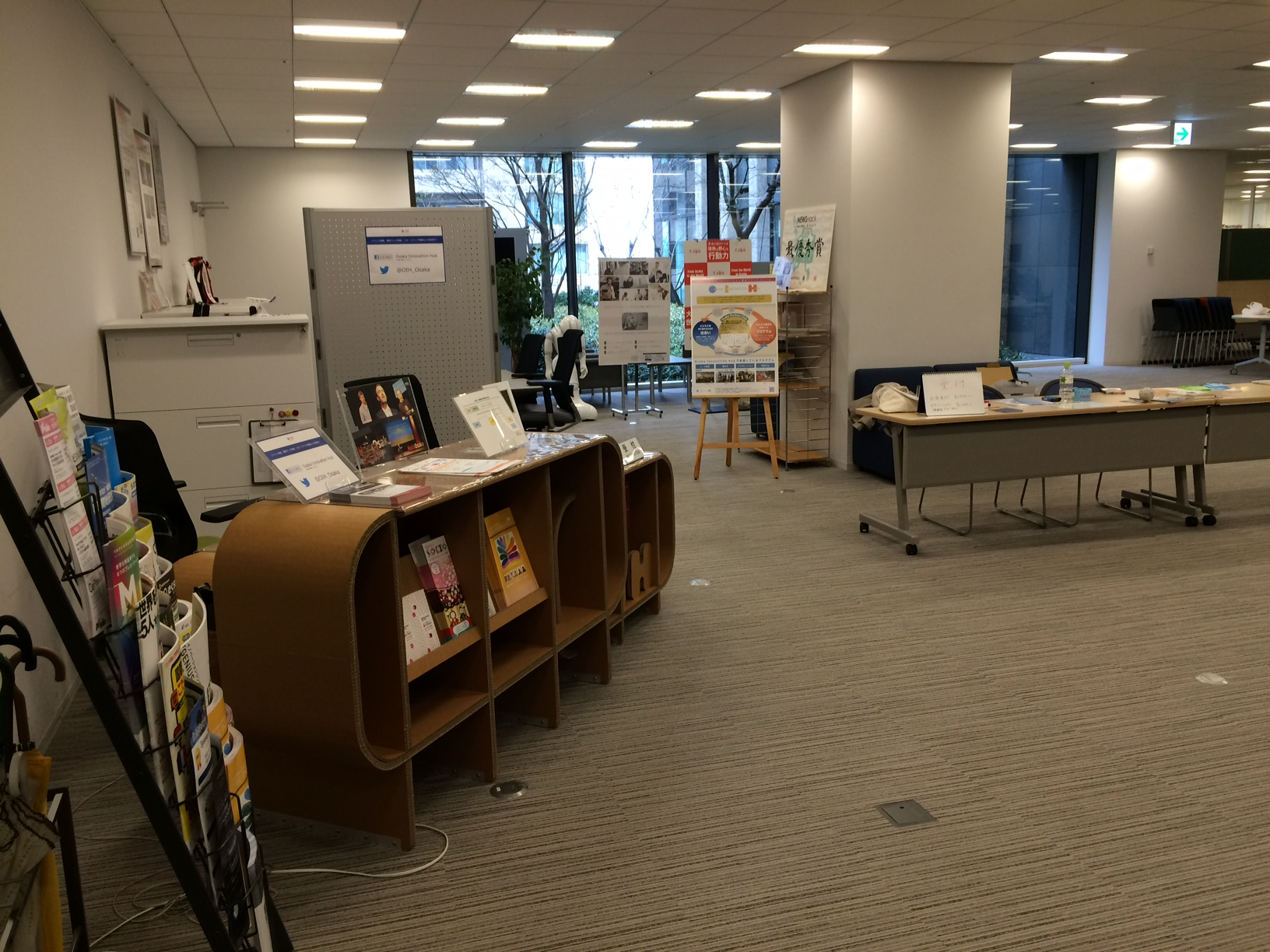 Global Innovation support base of Osaka City